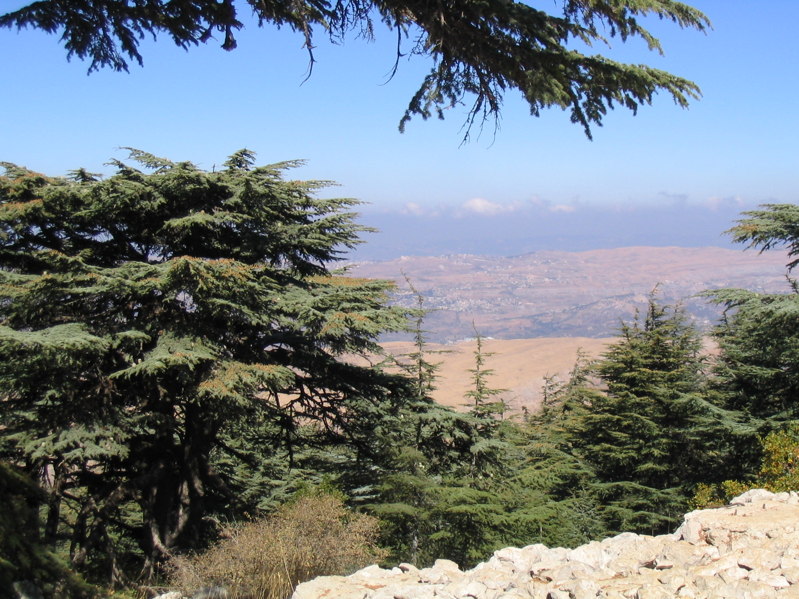 Cedrus libani var. libani — Cedar of Lebanon, mature and young trees. In the Al Shouf Cedar Nature Reserve, Lebanon.